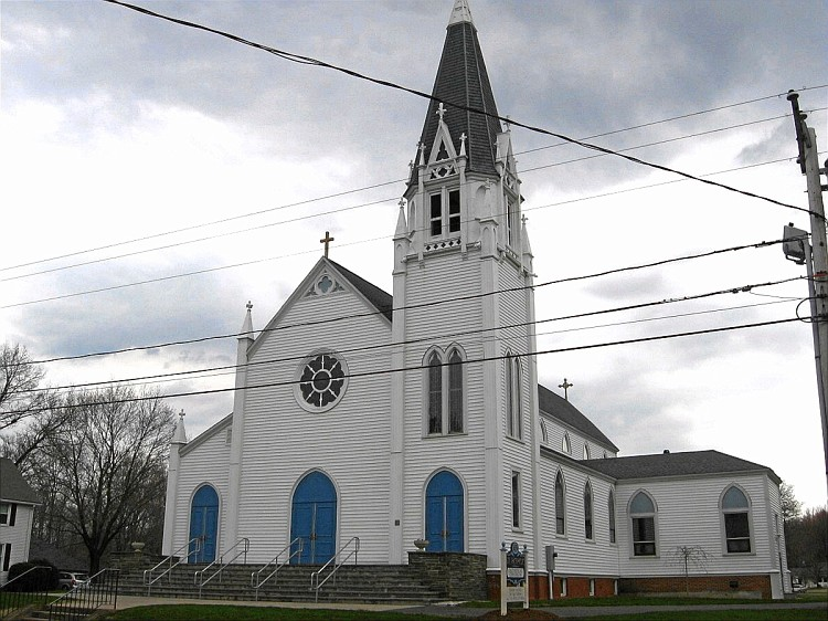 St. Patrick's Church in East Hampton, Connecticut; part of the Belltown Historic District.